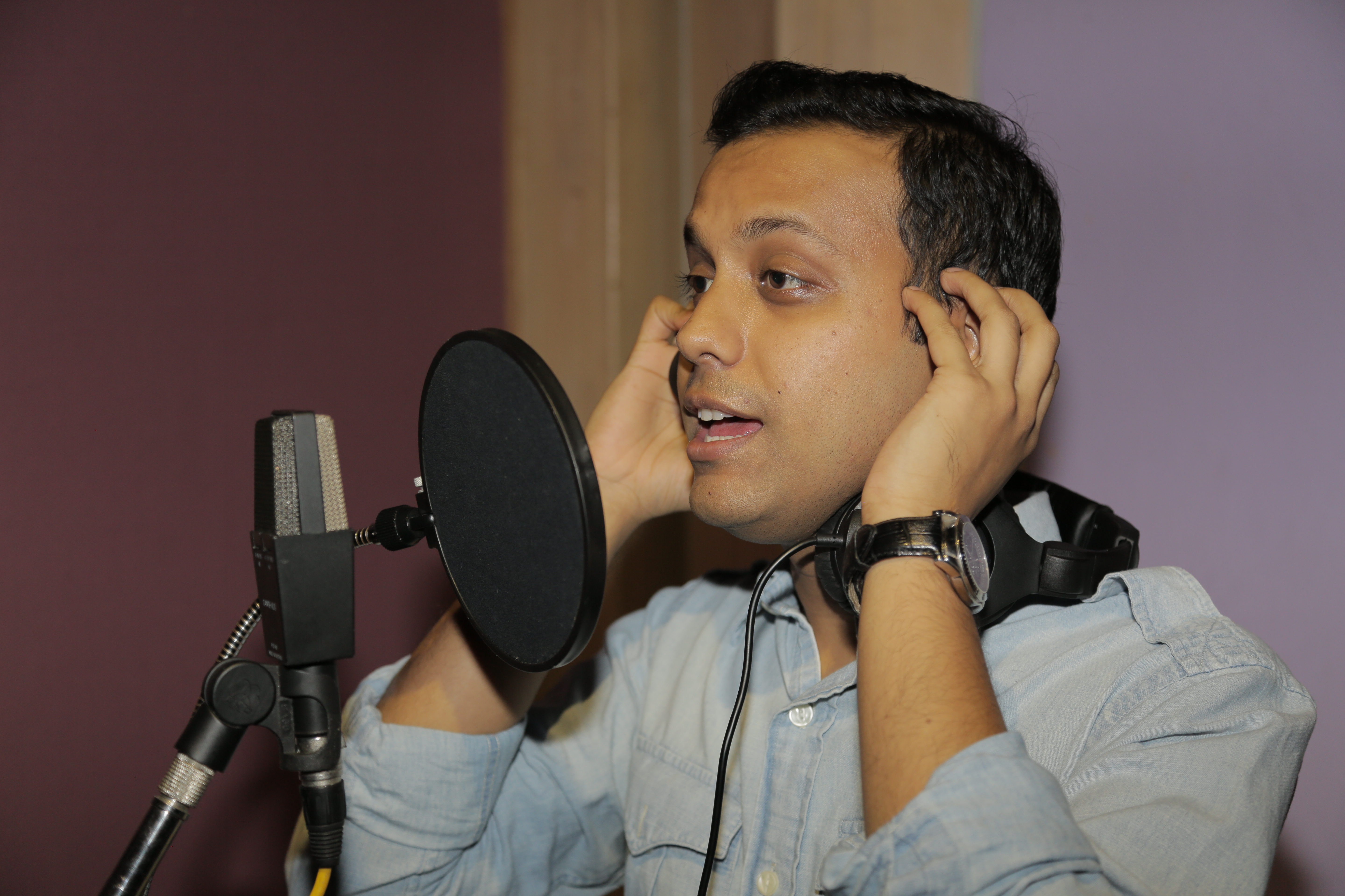 studio session